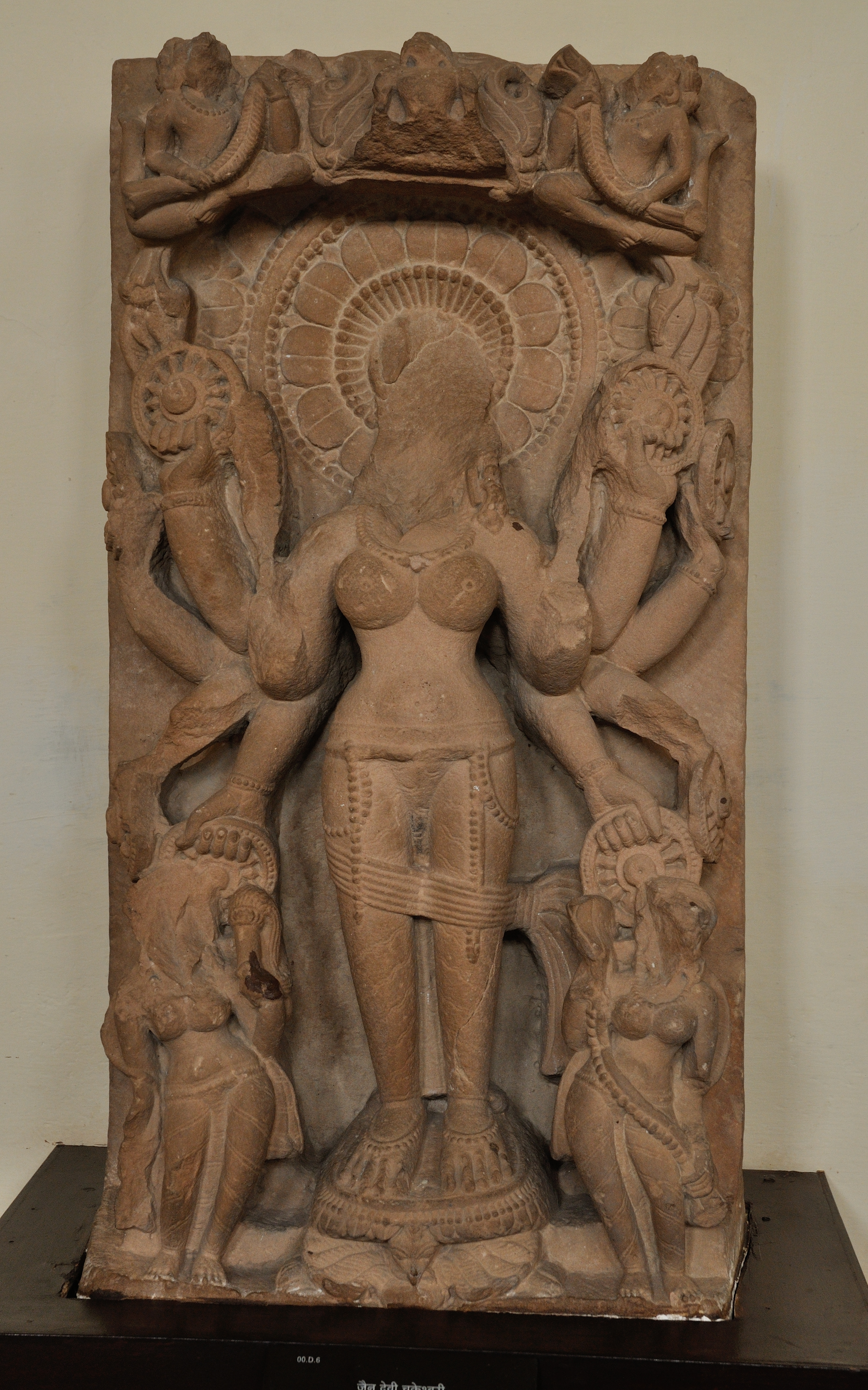 This artefact resides at the Government Museum, (hi: Rashtriya Sangrahalaya) formerly The Curzon Museum of Archaeology, Museum Road or Murari Lal Rajpal road, Dampier Nagar, Mathura, Uttar Pradesh, India. This museum is administrating by the State Government of Uttar Pradesh of India.